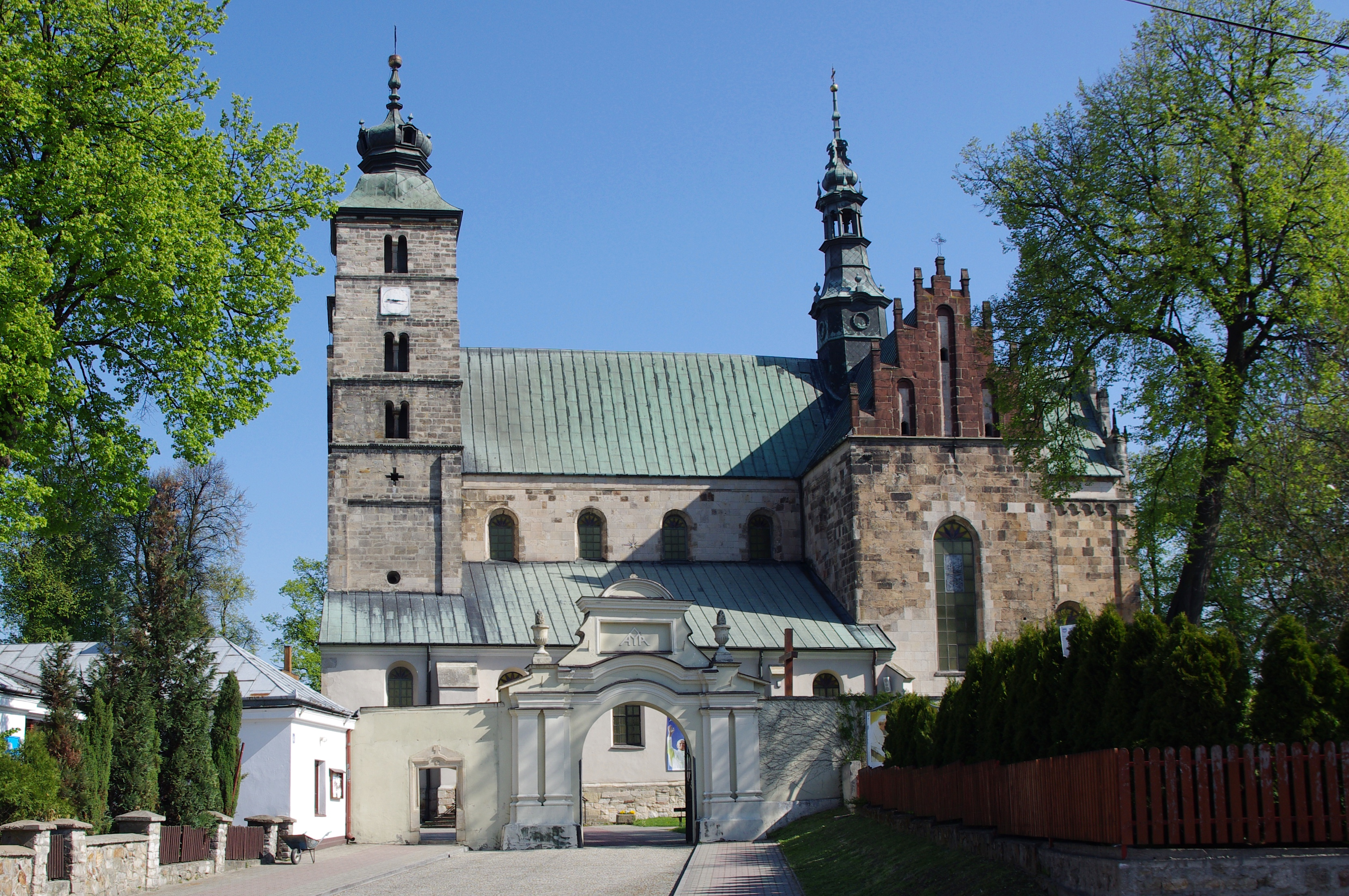 St. Martin church in Opatów